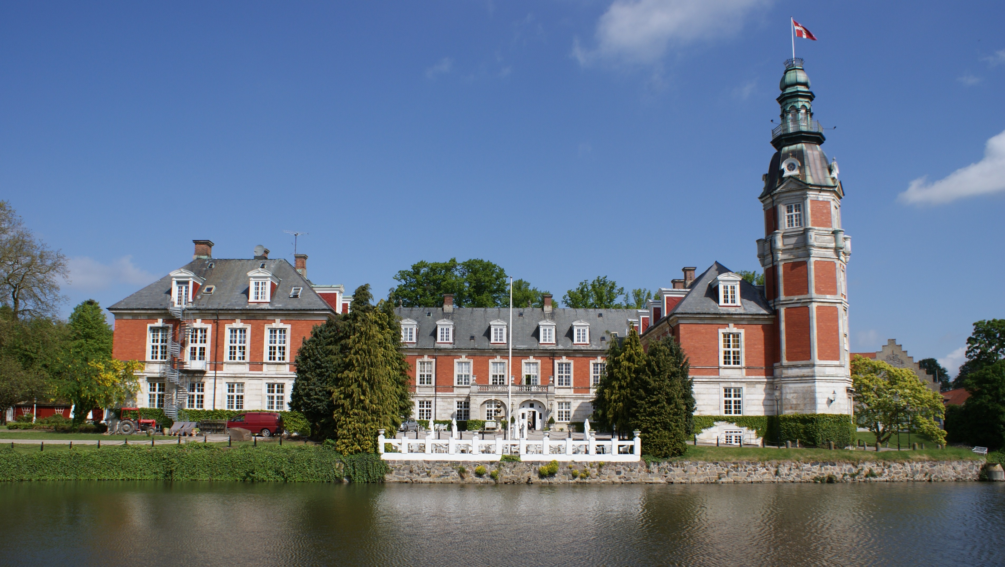 Hvedhol Palace